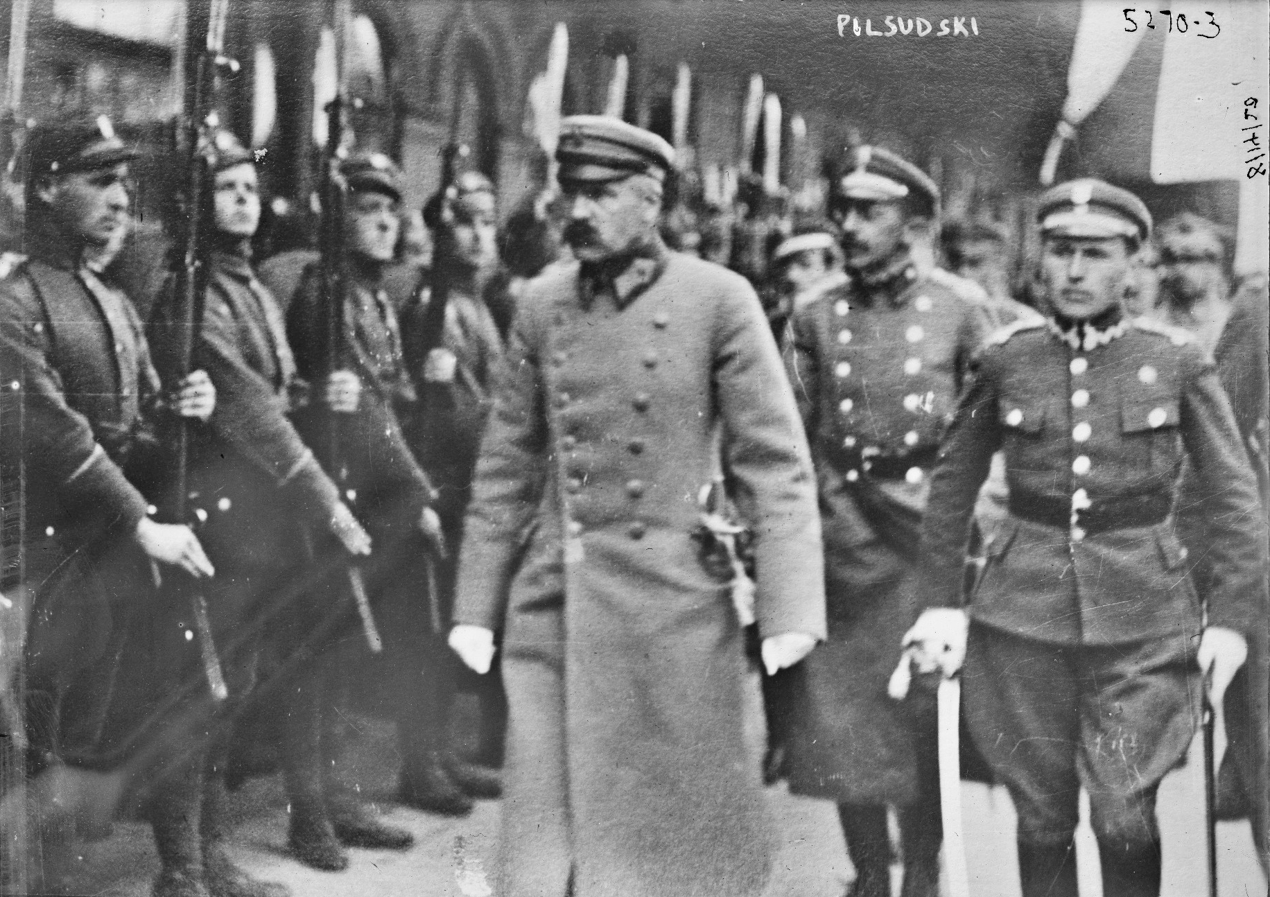 Józef Piłsudski (1867-1935) with soldiers in Minsk.